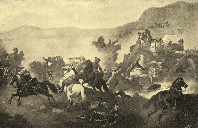 The Battle of Saint Gotthard (1664)